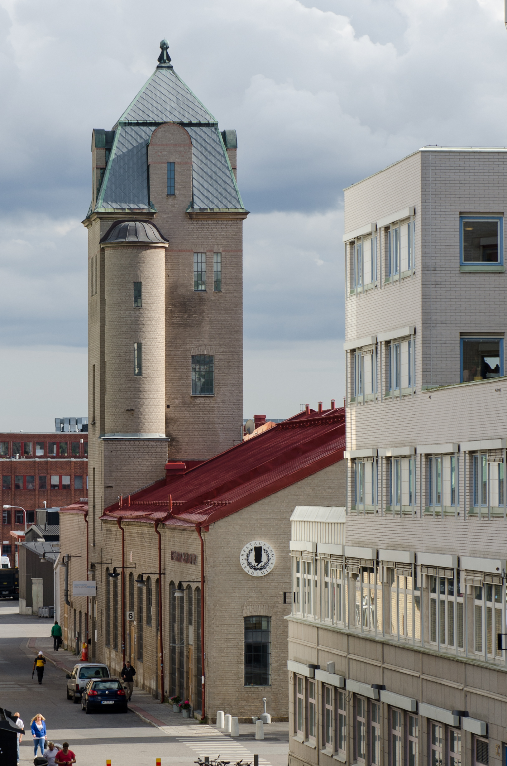 Old watertower in Slakthusområdet (the Slaughterhouse area), Johanneshov, Stockholm. Built 1912. Architect: Gustaf Wickman.